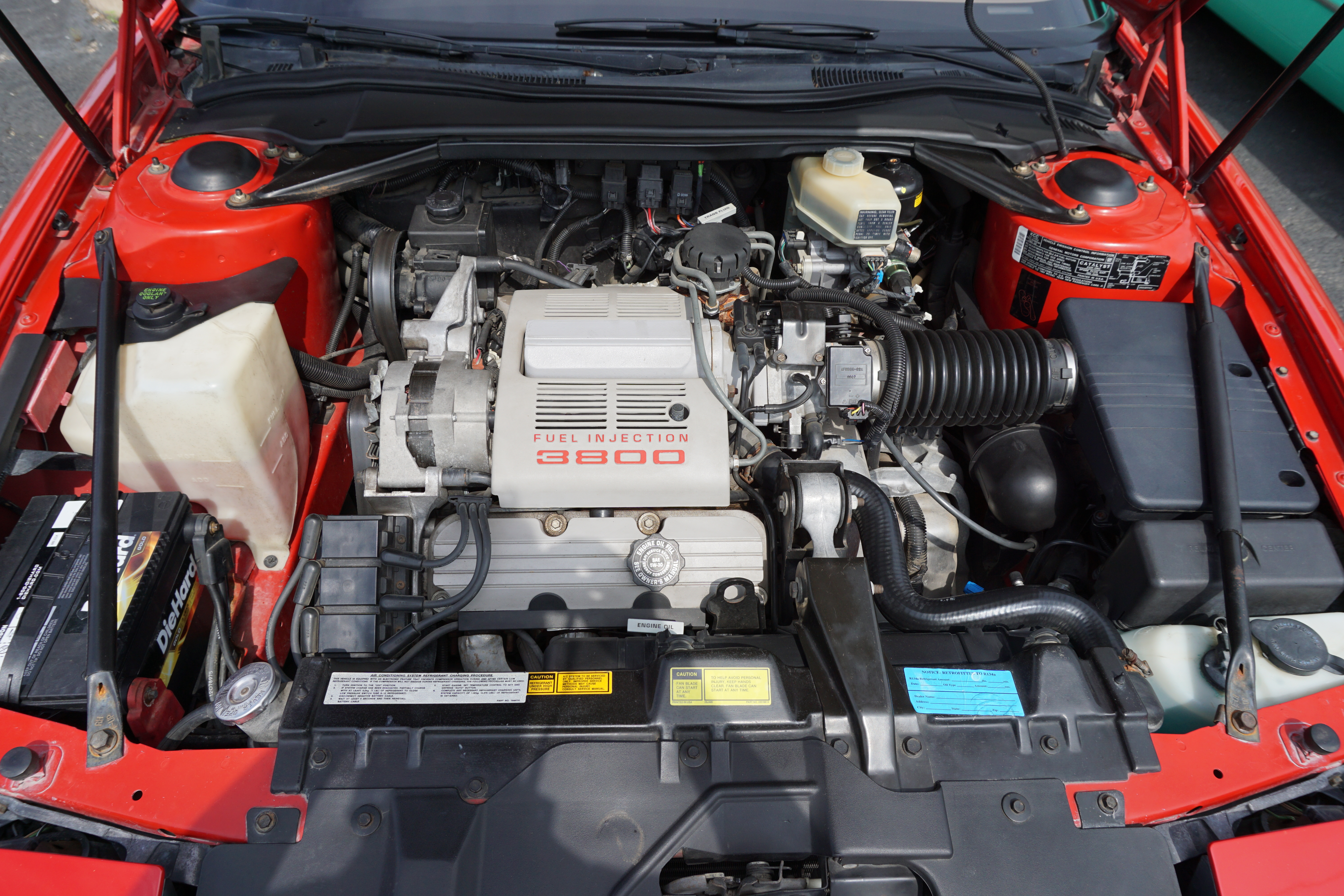 A 1989 Buick Reatta engine at the 2016 Northeast Texas Buick and Classic Car Show at Commerce Chevrolet Buick in Commerce, Texas (United States).